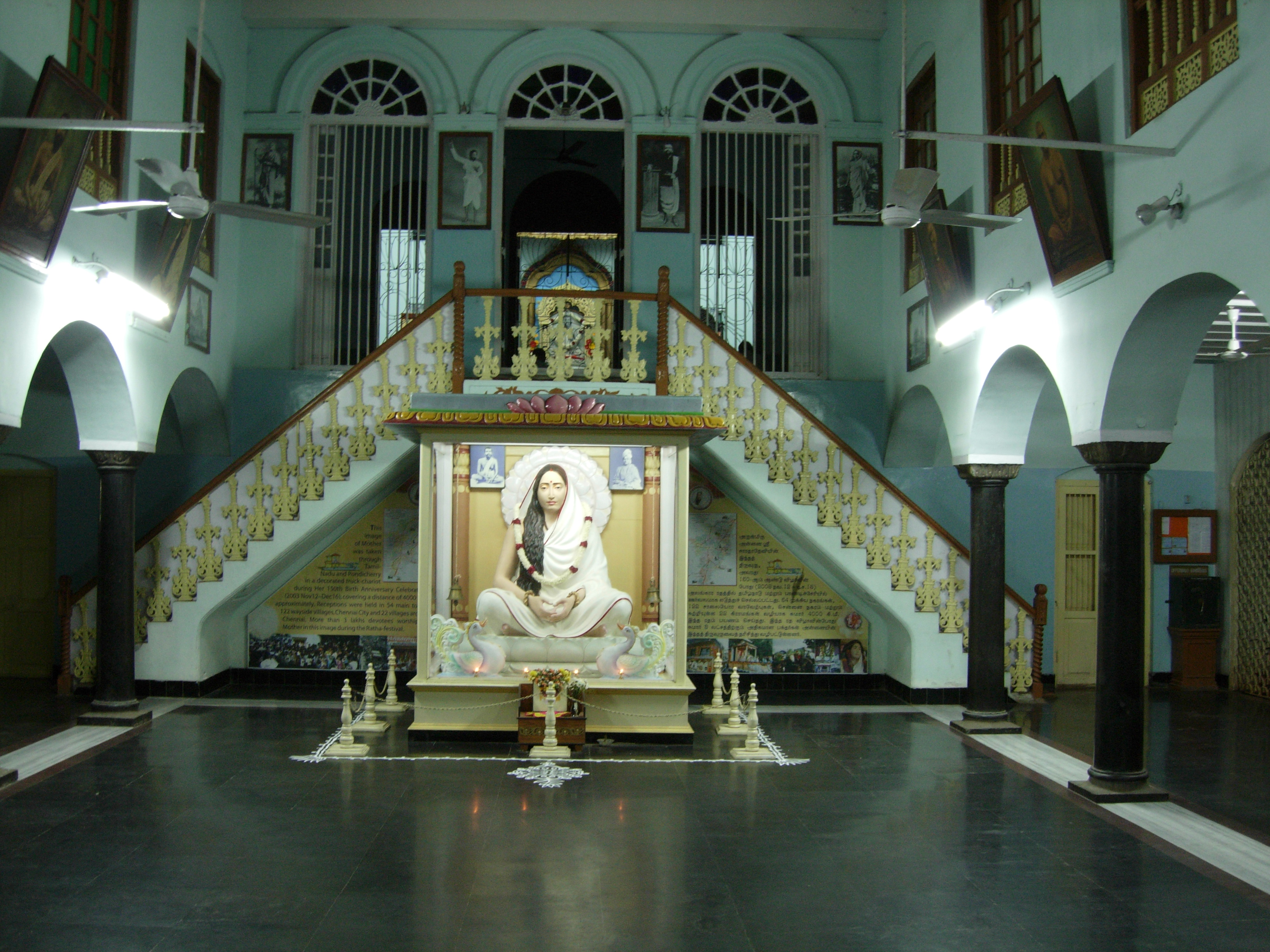 Inside the Old Temple of Sri Ramakrishna Math, Chennai.